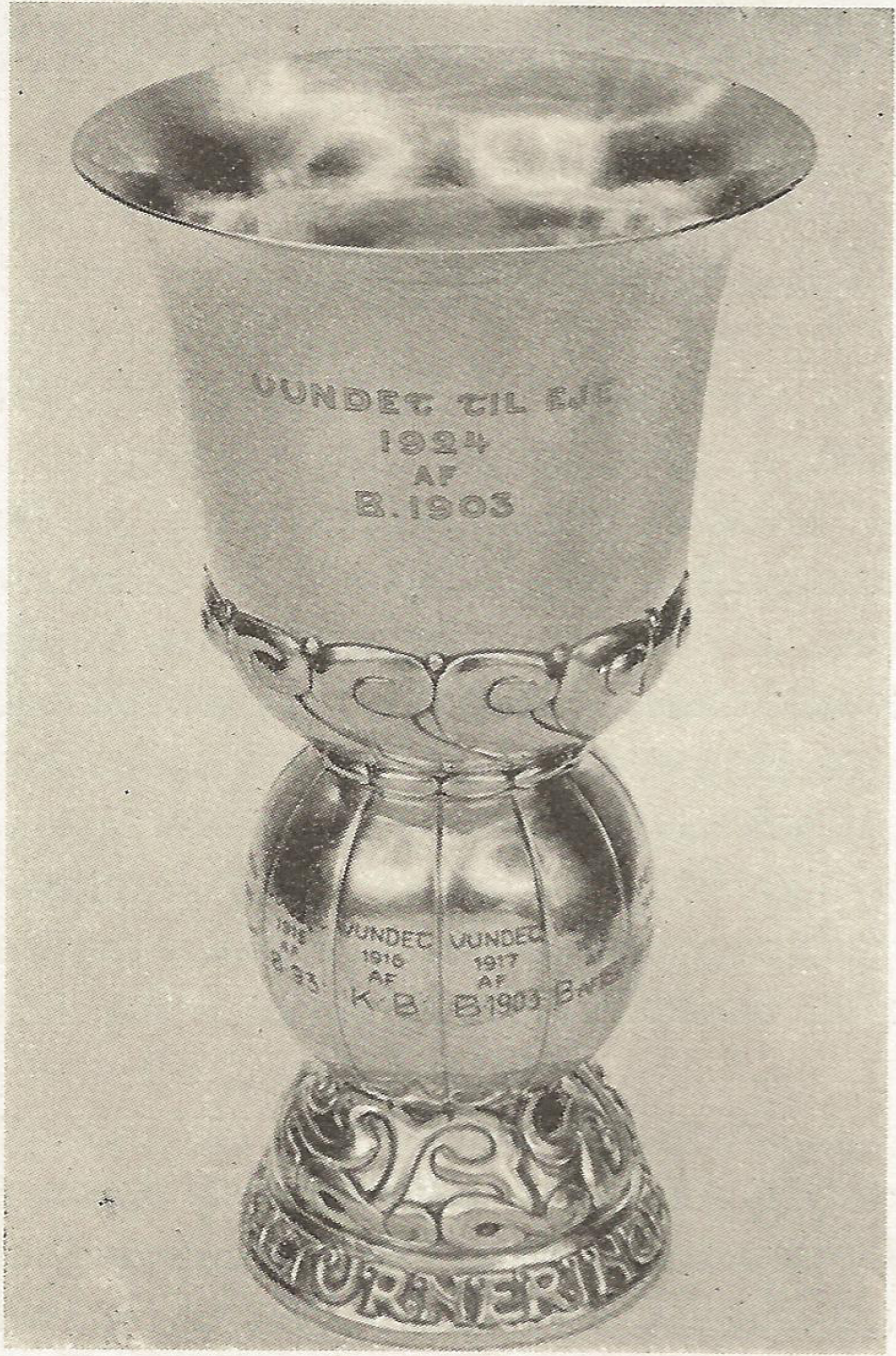 First trophy of KBUs Pokalturnering — the first trophy distributed during the history of KBUs Pokalturneing, and won for permanent ownership by Boldklubben 1903. Displayed on the trophy are some of the previous winners of the cup and a text indicating ownership.